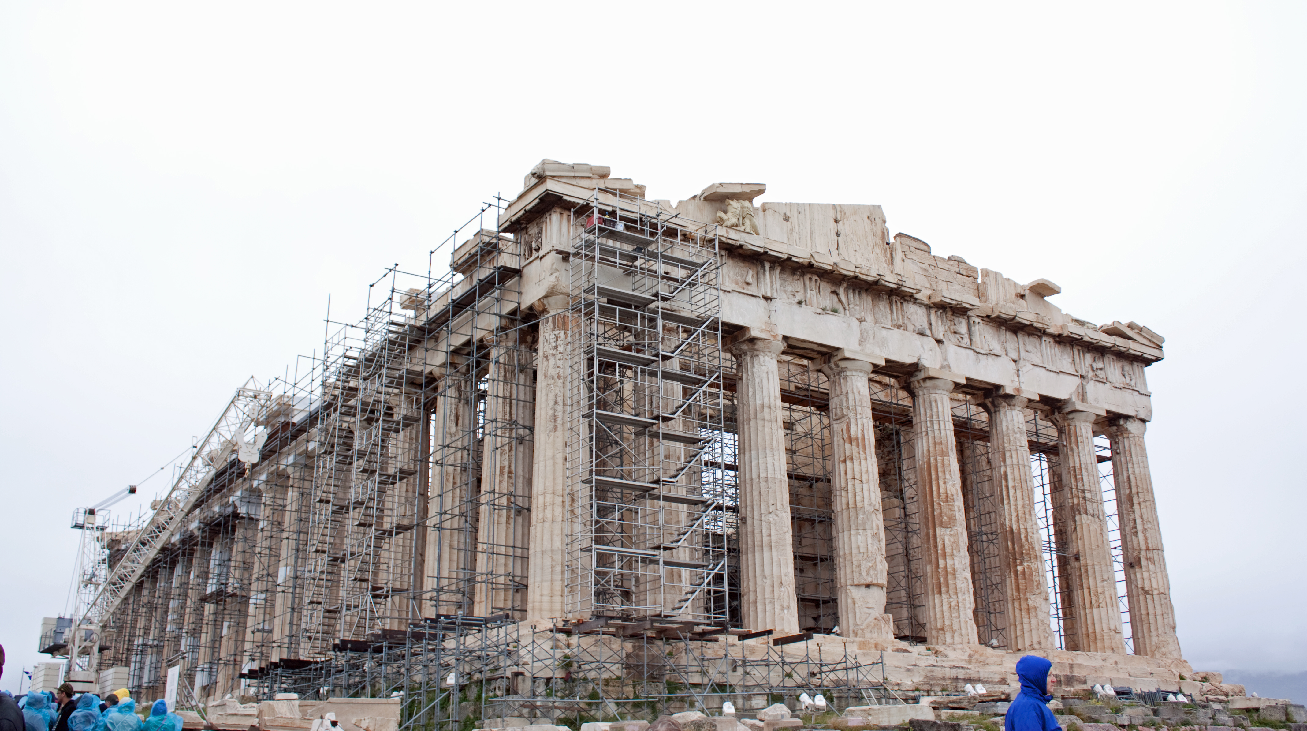 Parthenon on a rainy day on the Acropolis of Athens, Greece.